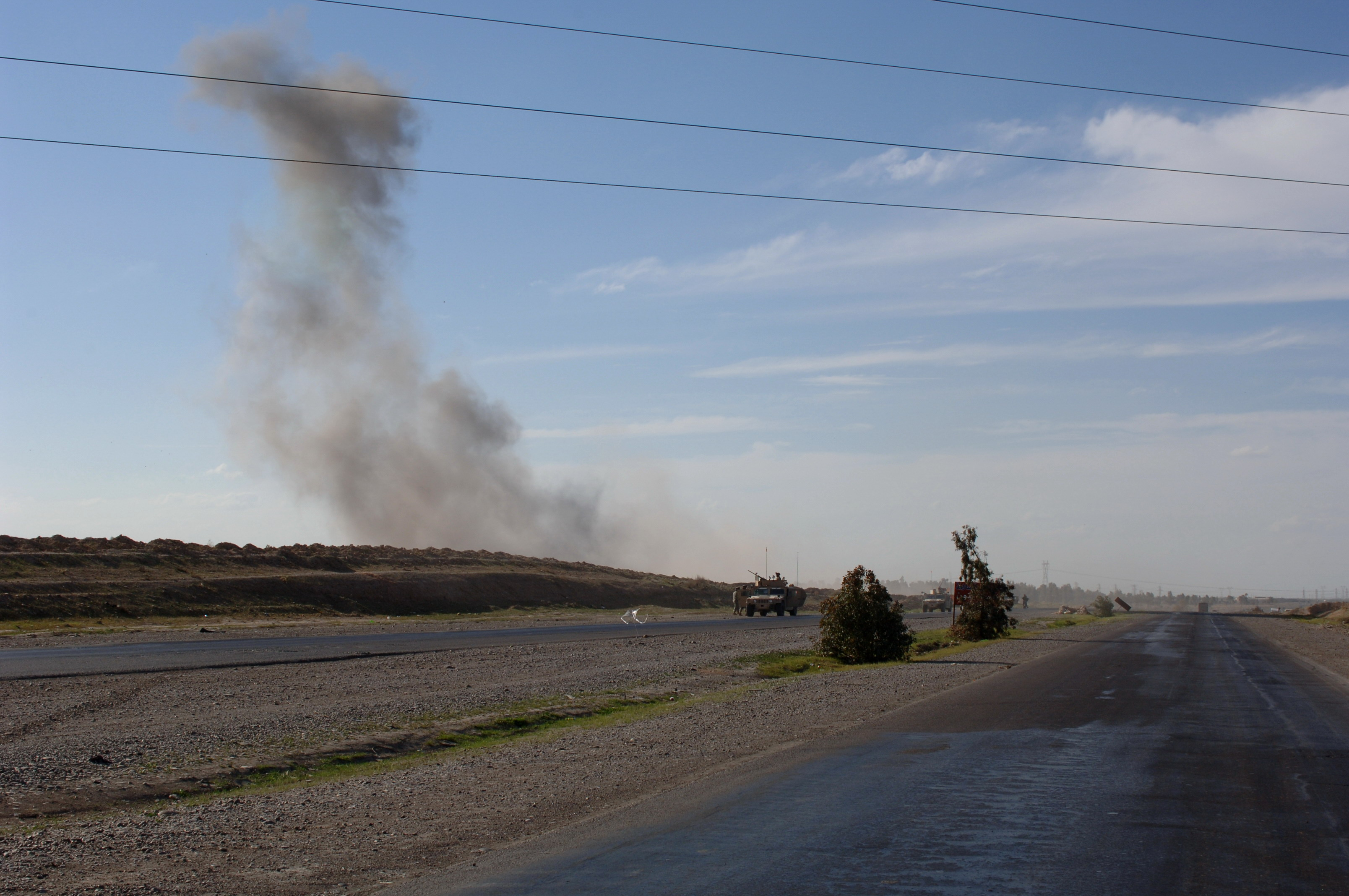 Smoke and dust mark the spot where a Humvee was damaged in an improvised explosive device attack, in the Baiji district, Salahuddin province, Iraq, March 27, 2006. The Humvee was operated by Soldiers from 3rd Platoon, Delta Company, 1st Battalion, 187th Infantry Regiment, 101st Airborne Division.